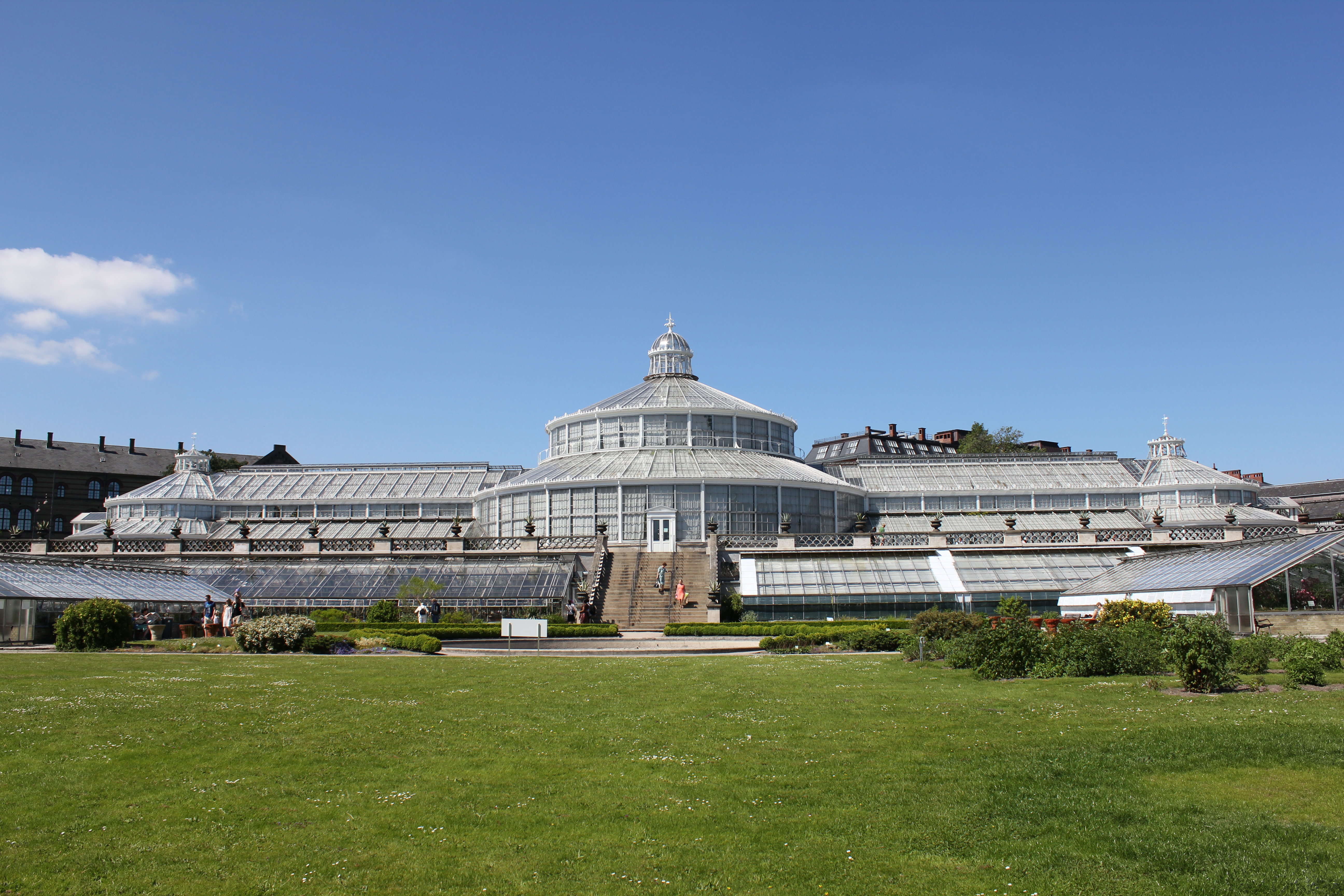 University of Copenhagen Botanical Garden